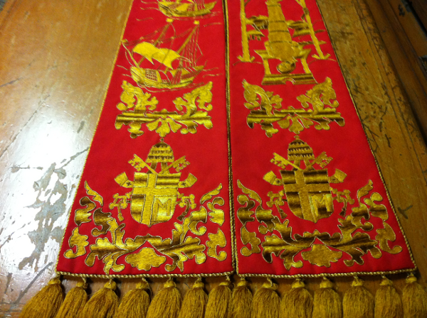 St John Paul II's stole used during his journey in Japan.